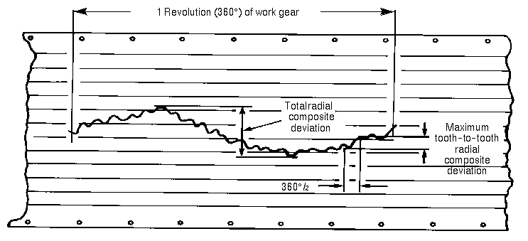 Composite variation